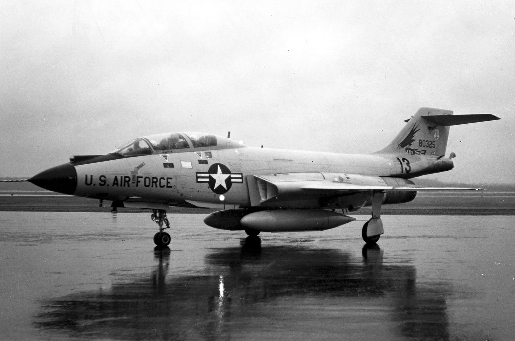 A U.S. Air Force McDonnell F-101B-110-MC Voodoo fighter (s/n 58-0325) from the 123rd Fighter-Interceptor Squadron Redhawks, 142nd Fighter Interceptor Group, Oregon Air National Guard. This aircraft is today on display at the National Museum of the U.S. Air Force.